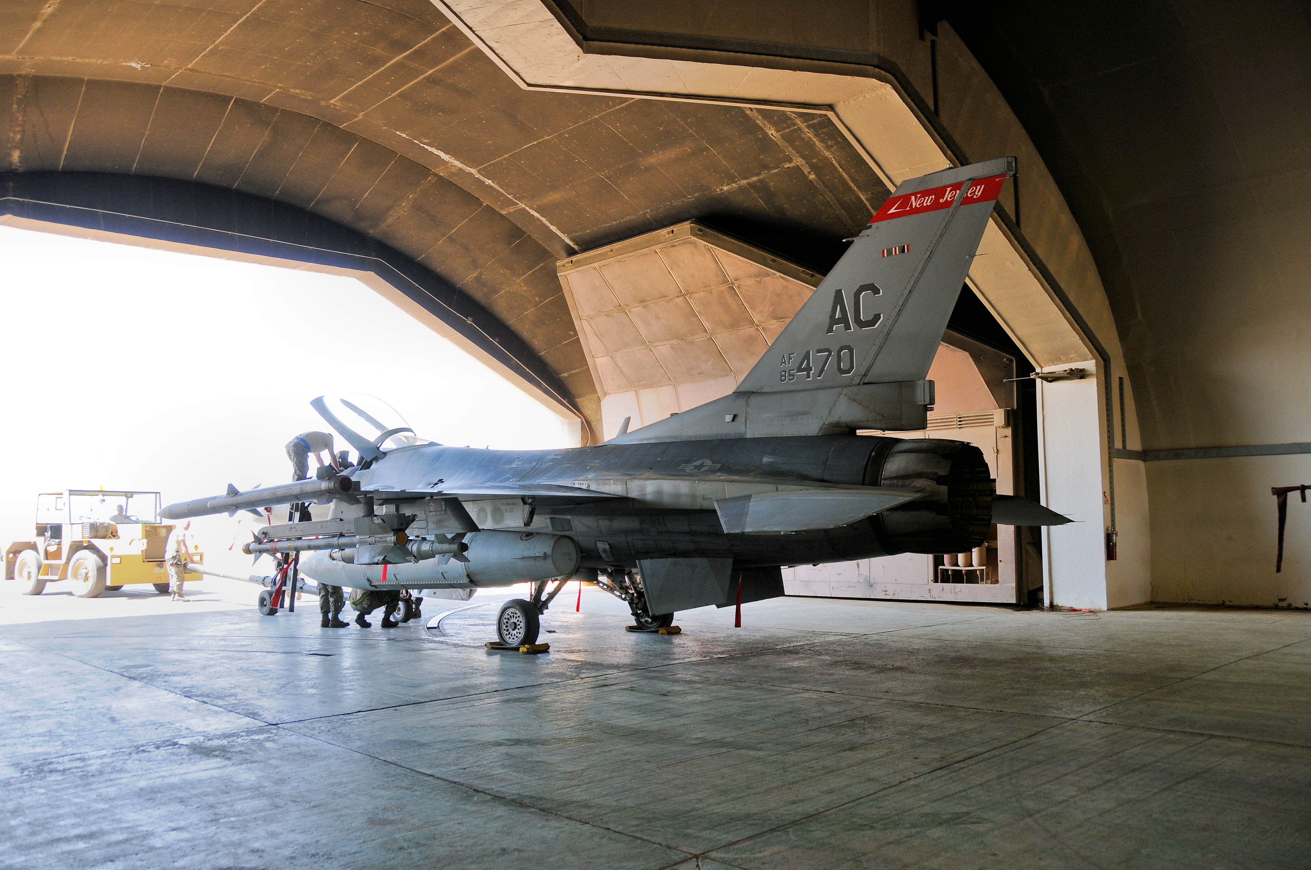 Members of the 332nd Expeditionary Aircraft Maintenance Squadron (EAMXS), place an F-16C+ Fighting Falcon from the 177th Fighter Wing back in a hardened aircraft shelter (HAS) at Joint Base Balad, Iraq on May 4, 2010. Unit members from the 177th Fighter Wing, NJ Air National Guard, located in Egg HarborTownship, NJ, deployed to Iraq in support of Operation Iraqi Freedom. (U.S. Air Force photo/Master Sgt. Andrew J. Moseley/Released)